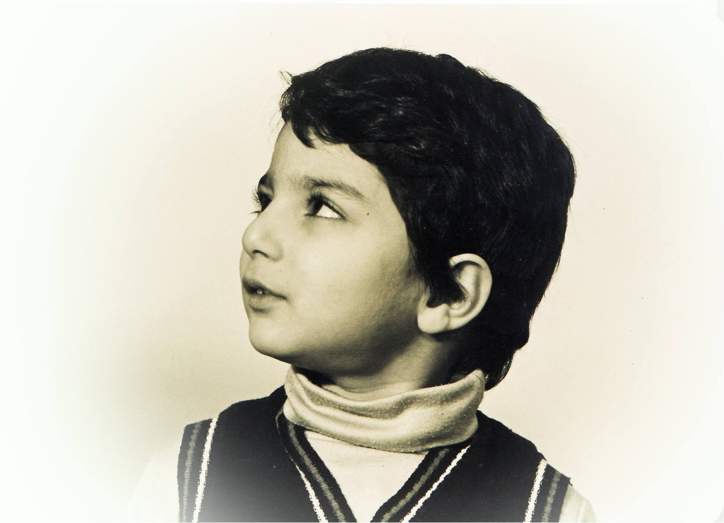 Omid Ahangar